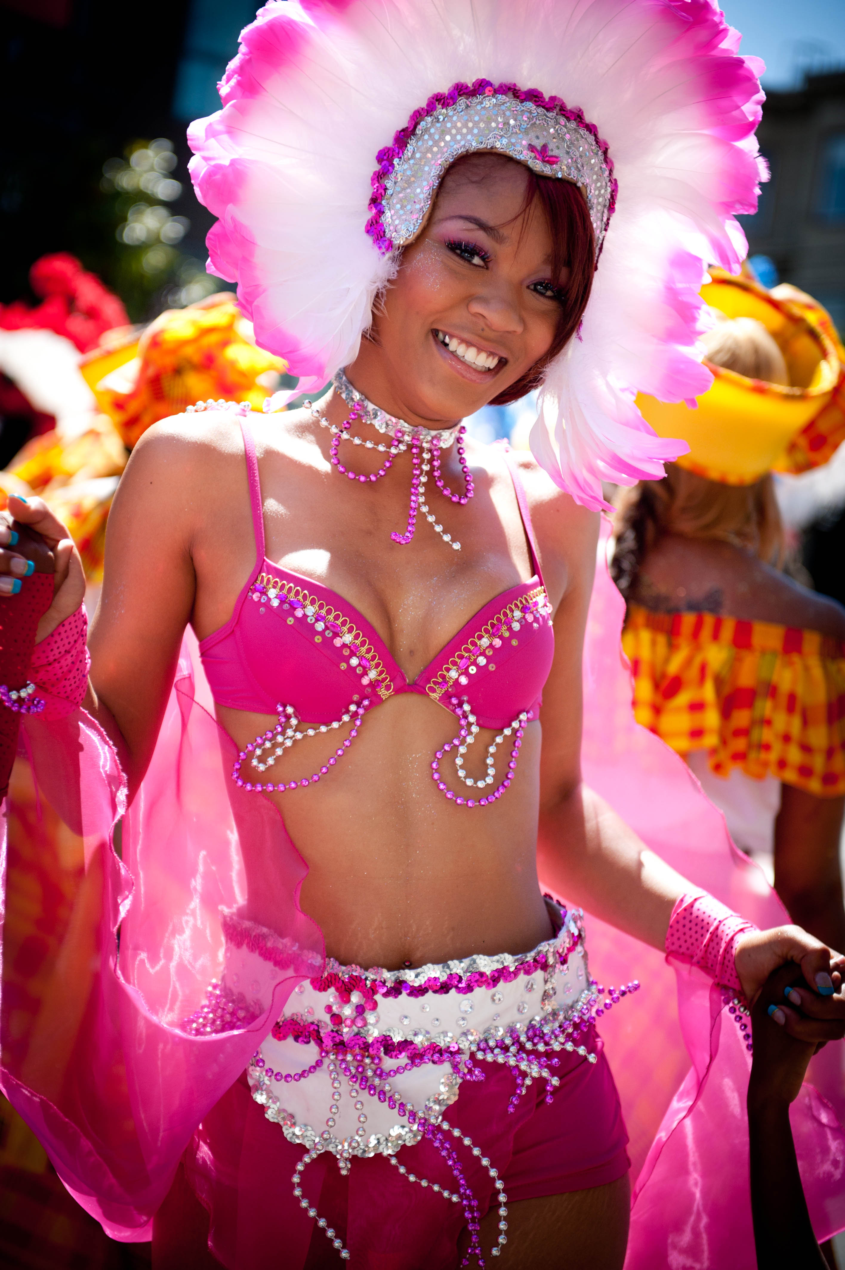 gorgeous Caribbean pink dancer.